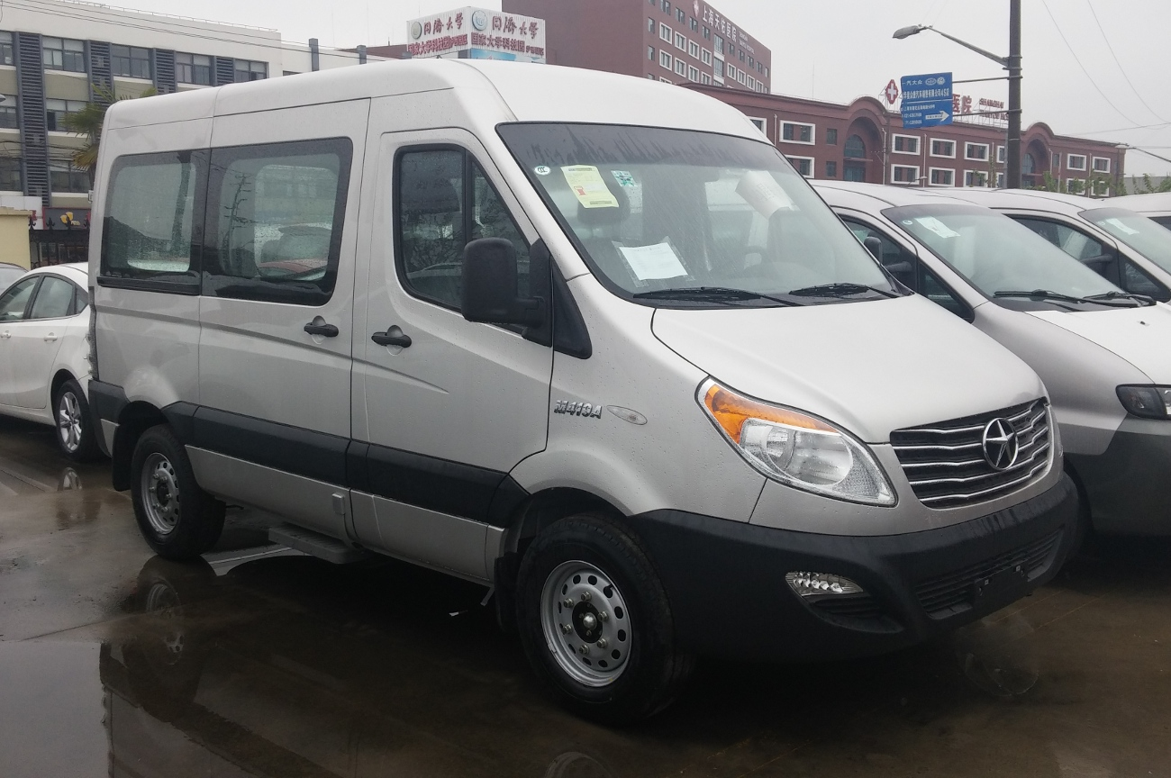 JAC Sunray SWB photographed in Shanghai, China.